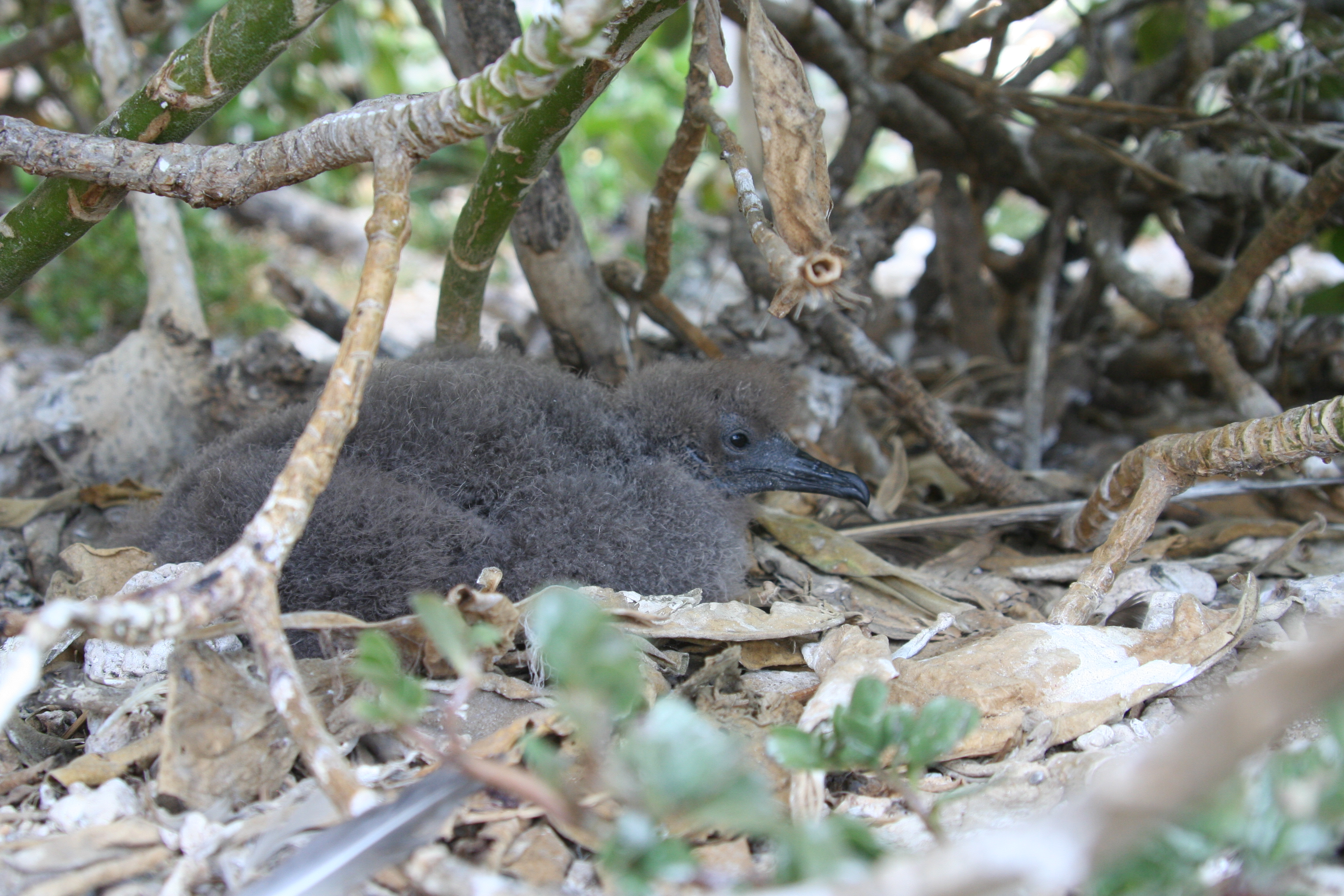 Christmas Shearwater Puffinus nativitatis chick